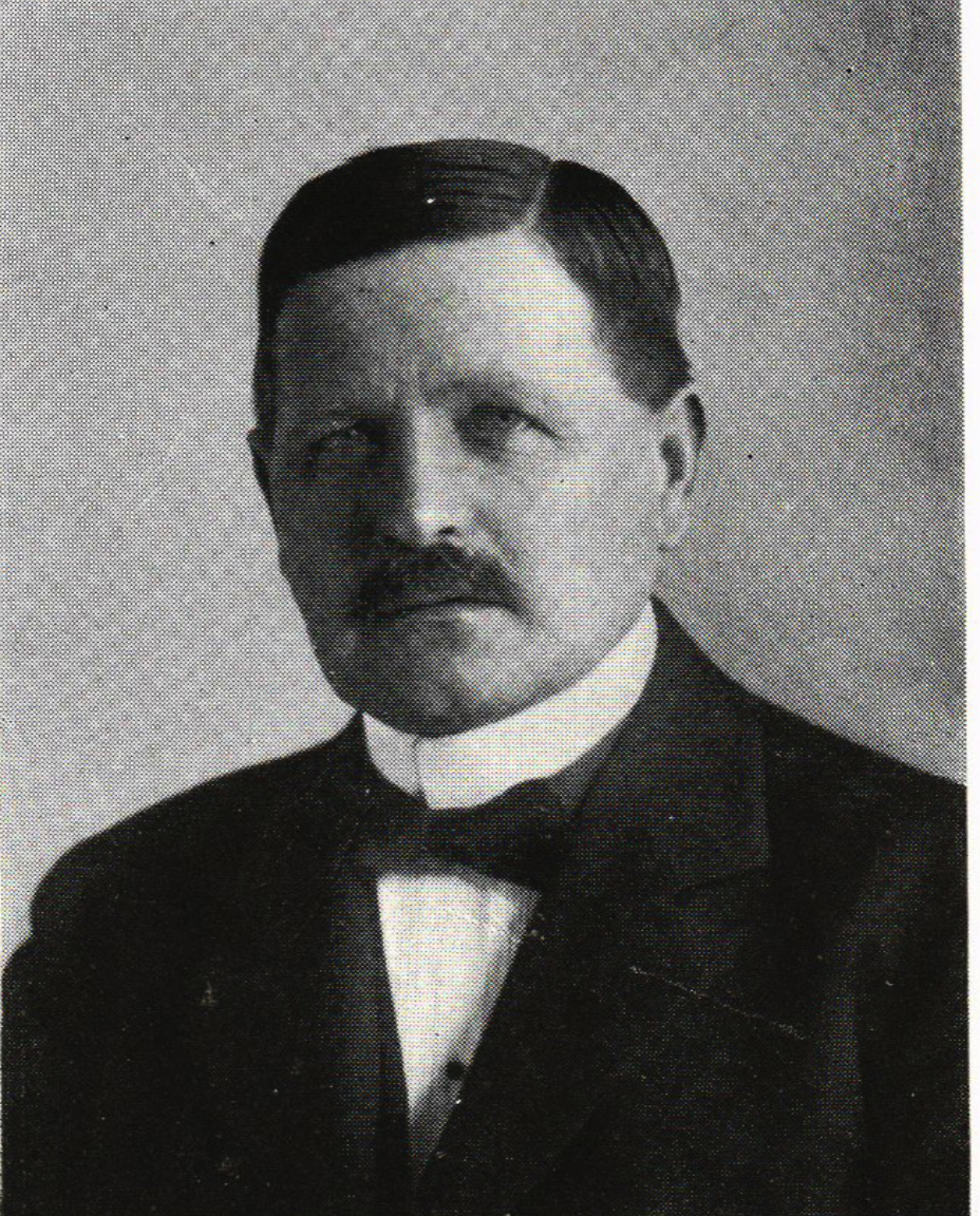 Andersson i Myggenäs, född 22 december 1873 i Valla församling på Tjörn, död 30 juli 1949, var en svensk lantbrukare, bankkamrer och riksdagspolitiker